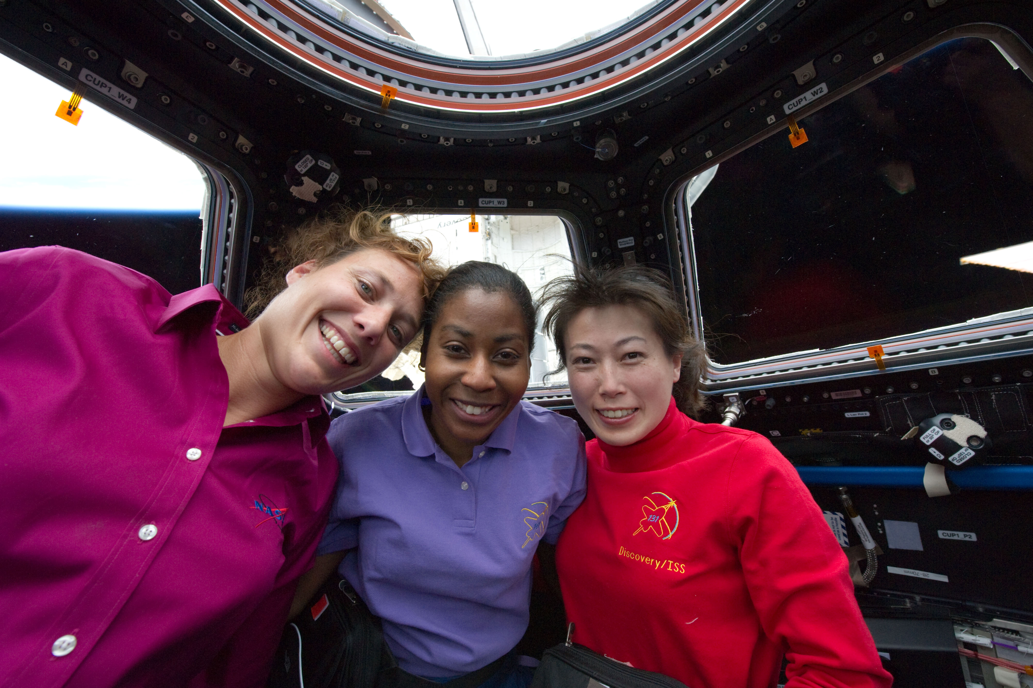 Astronauts Dorothy Metcalf-Lindenburger (NASA), Stephanie Wilson (NASA), and Naoko Yamazaki (JAXA) pose in the ISS Cupola during STS-131